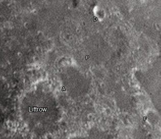 Littrow lunar crater as seen from Earth with satellite craters labeled